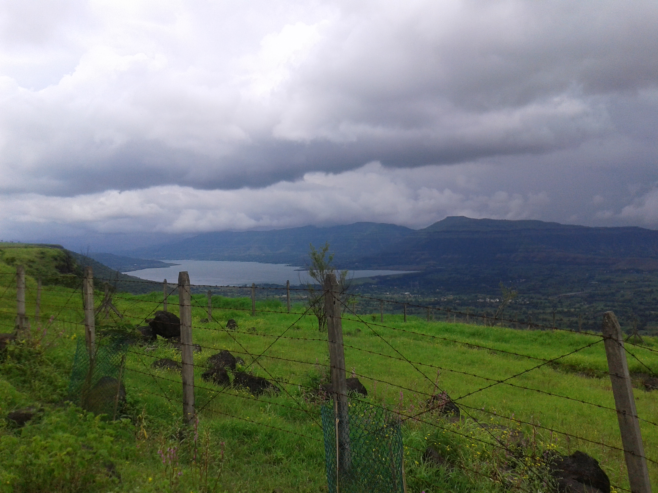 memories